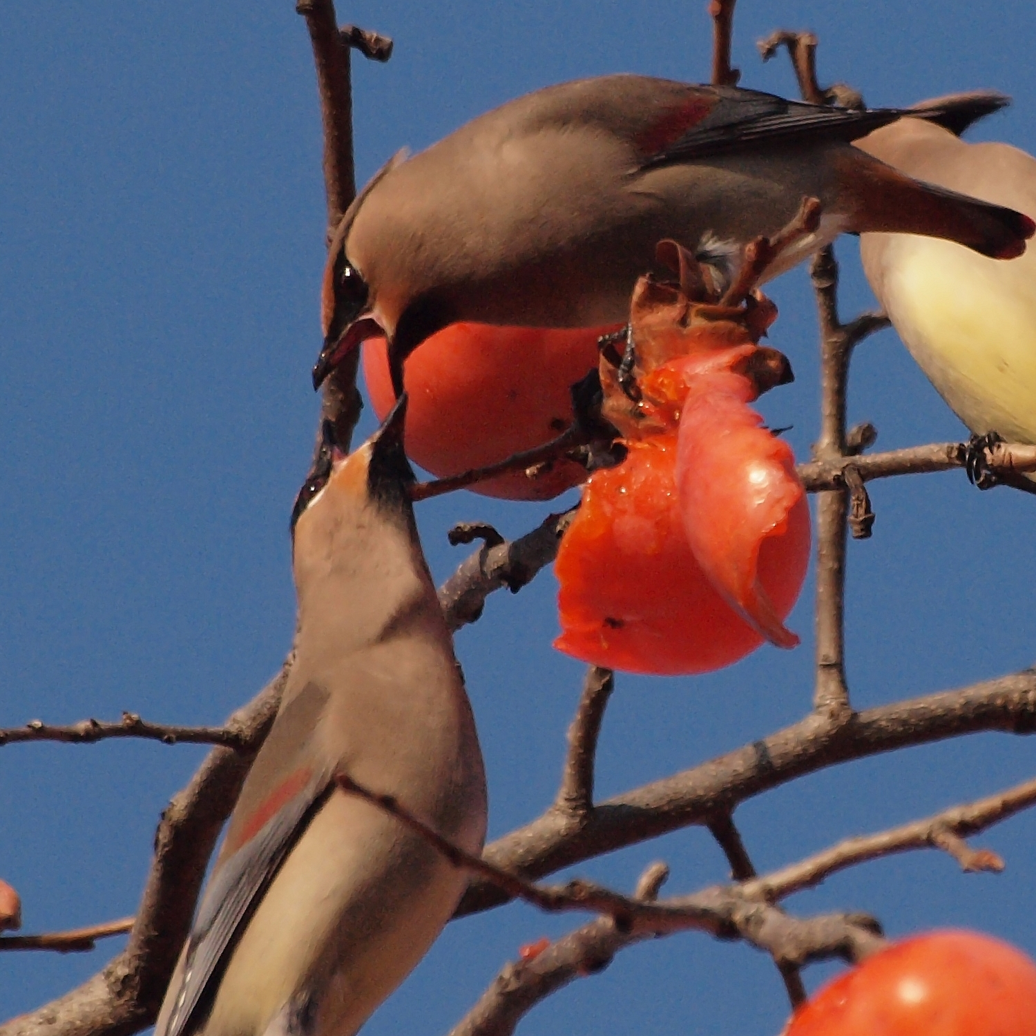 Japanese Waxwing Bombycilla japonica feeding on Persimmon fruit, Nara, Japan.